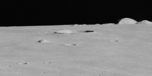 Highly oblique view facing north of Piazzi Smyth crater, northeastern Mare Imbrium, on the moon.